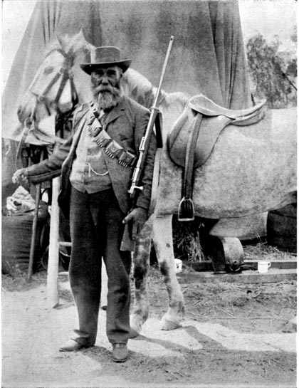 Snyman, Boer General. Snyman was the worst and most talentless Boer general of the war. Due to his inaction many of his men were killed, wounded or captured. He was stripped of his rank and received a jail sentence for cowardice. He was released by the British subsequent to the fall of Pretoria, and spent the remainder of the war on his farm. ↑ Generaal J.P. (Kootjie) Snyman. Swakste Generaal.